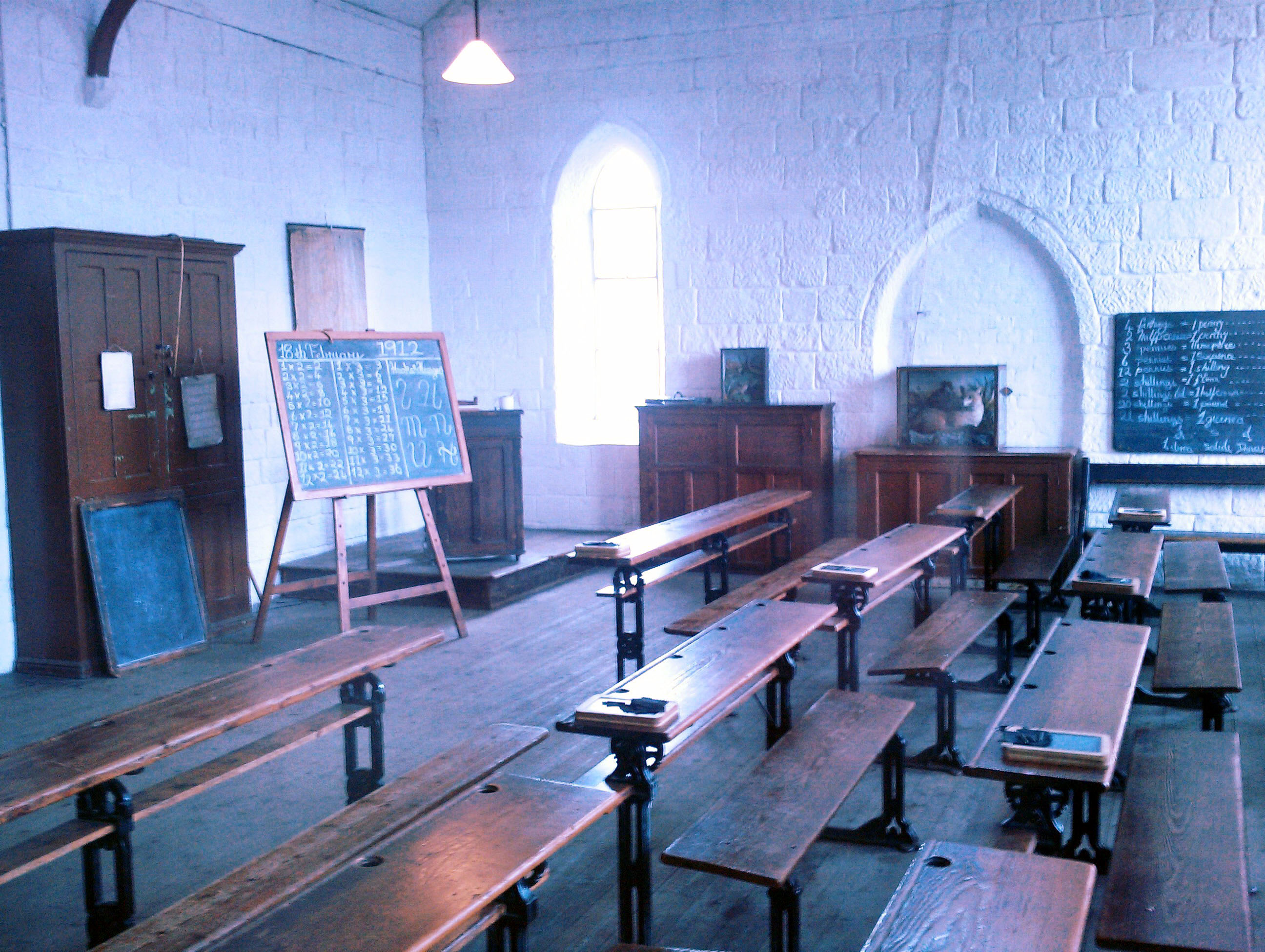 St James School Dudley classroom in the Black Country Living Museum